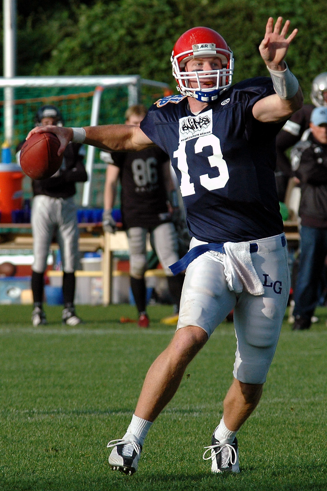 A Quarterback throwing a Pass. (Scott Pendarvis, Lübeck Cougars, Germany)